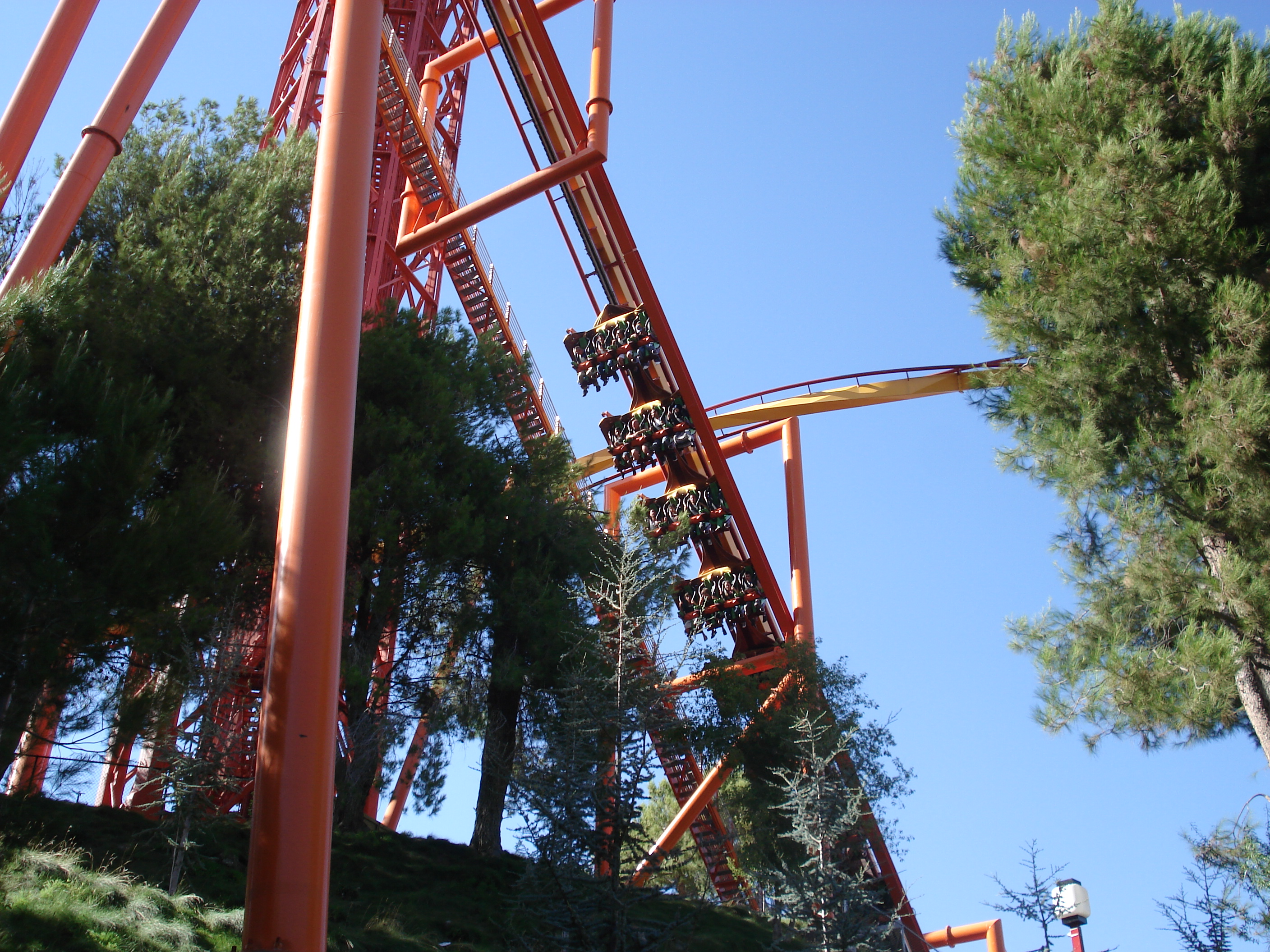 Tatsu at Six Flags Magic Mountain